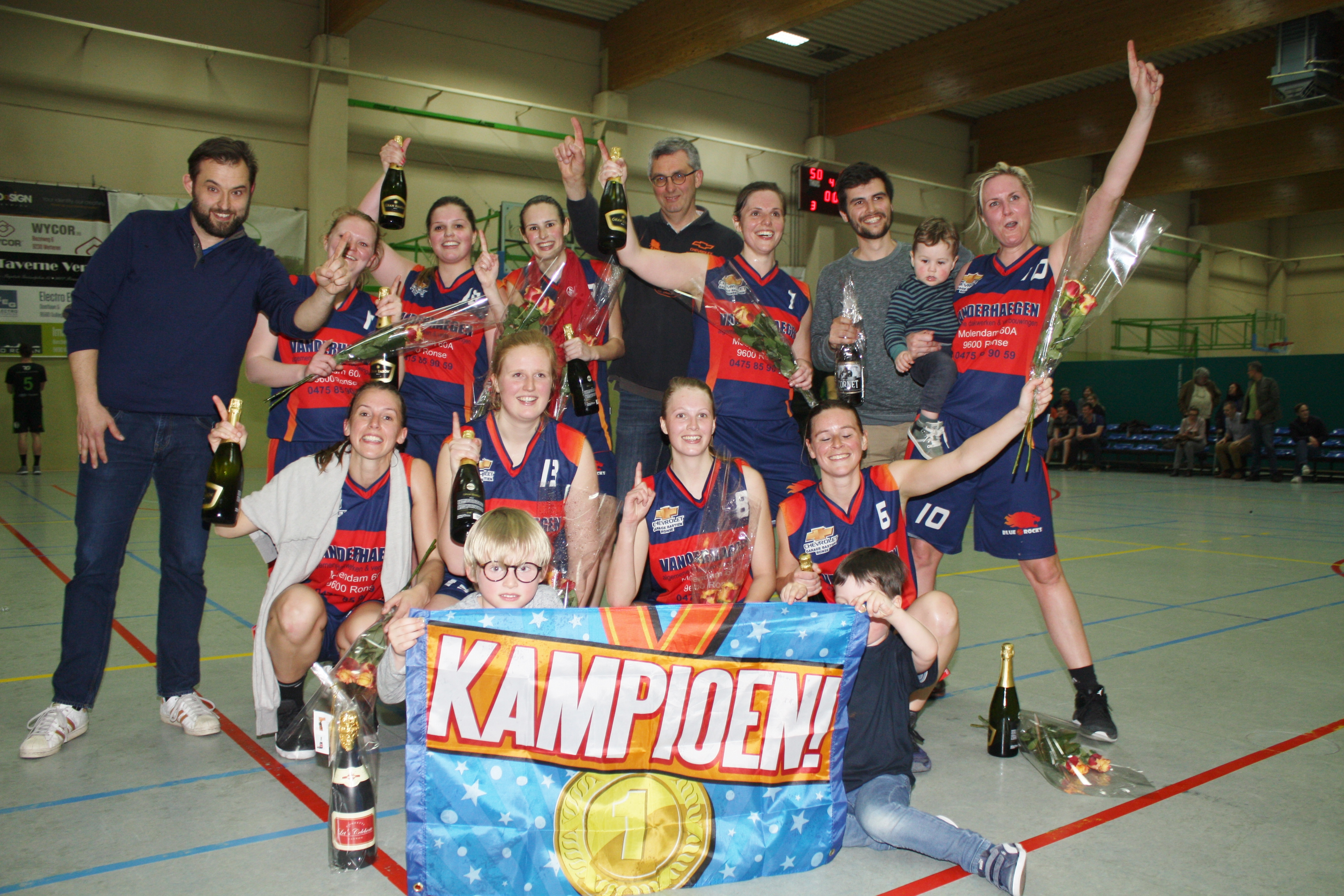 Dames Blue Rocks Kampioen